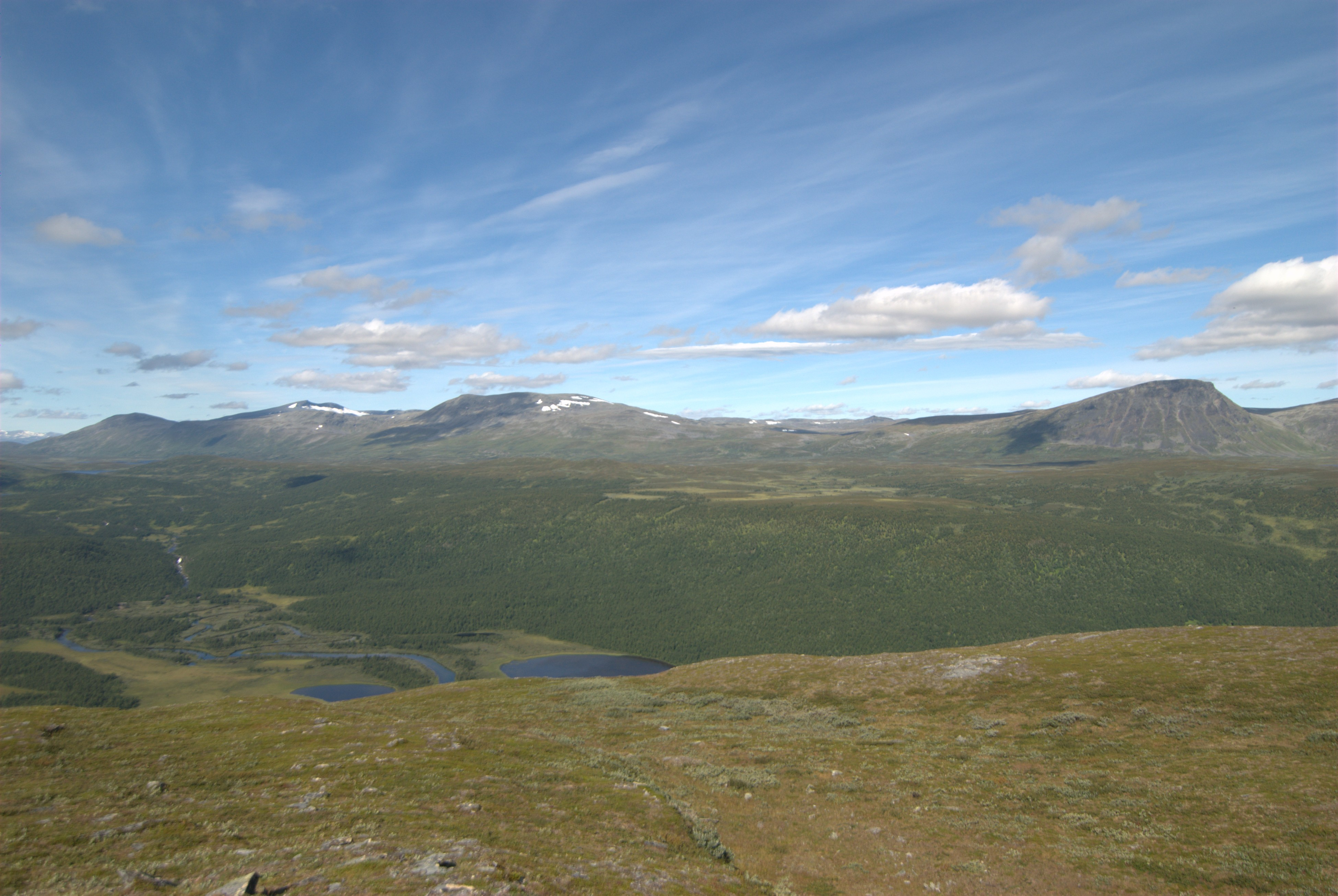 Landscape of Vindelfjällen. Seen from the Kungsleden trail above Tjulträsk (between Serve and Aigert)